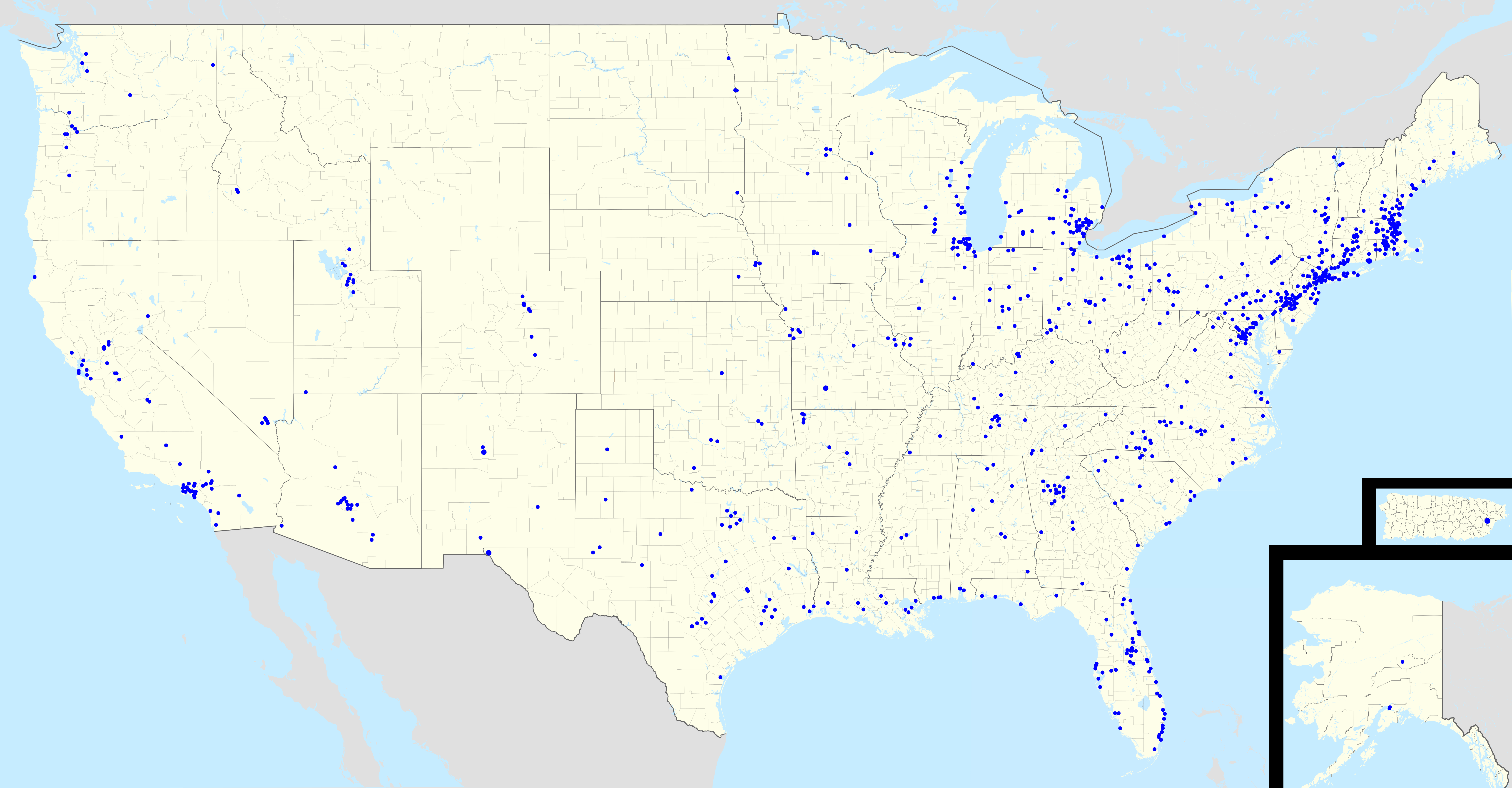 Planet Fitness locations in the United States